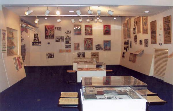 Yad Yaari Archive, interior of historical exhibit on Hashomer Hatzair